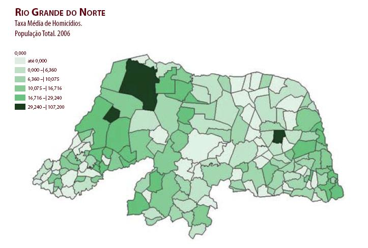 Average rate of homicides in Rio Grande do Norte.